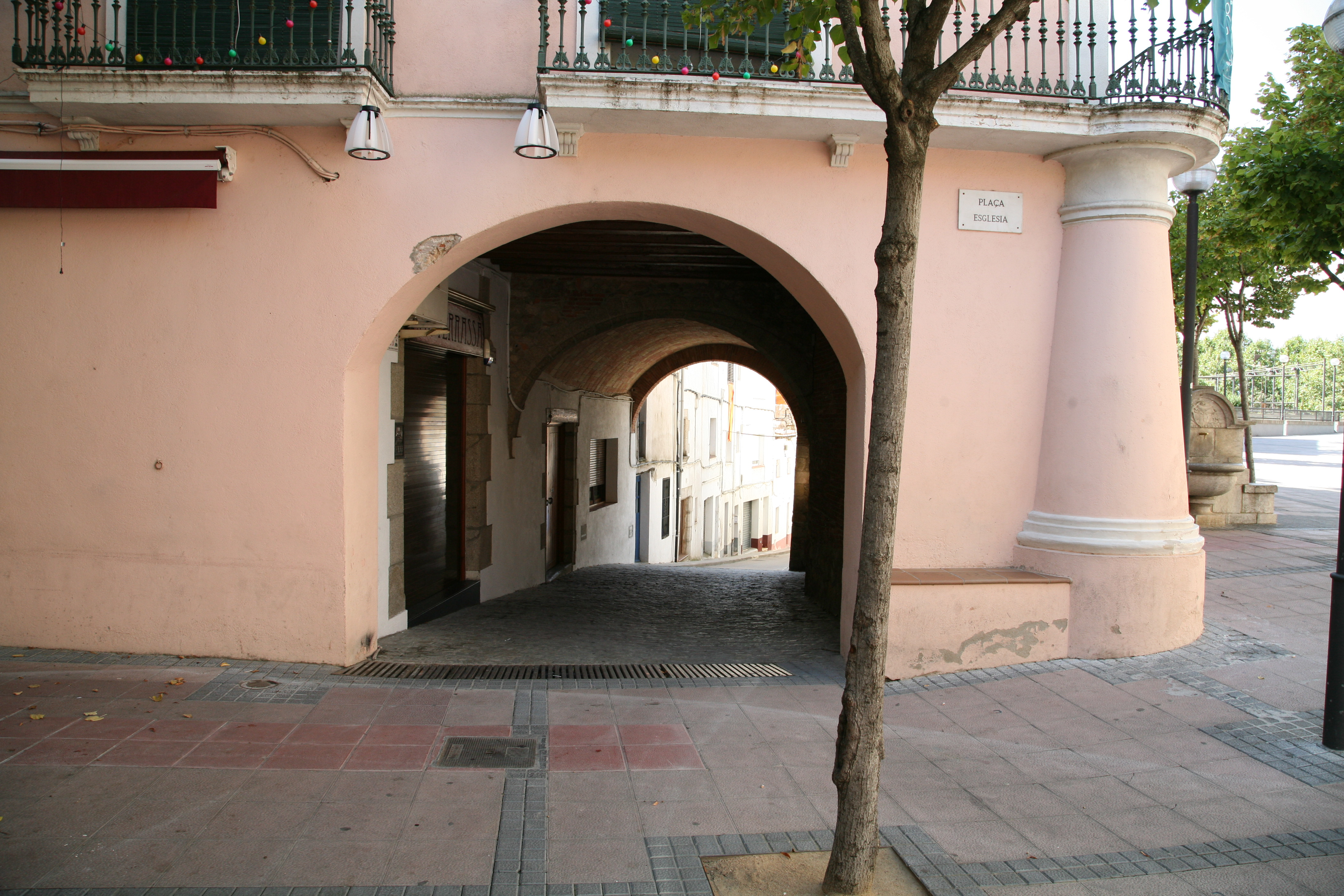 IPA-9236 Tordera Smiths street